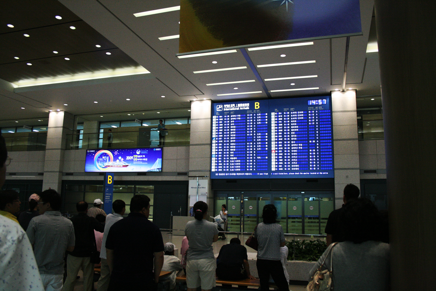 Arrivals in Incheon International Airport